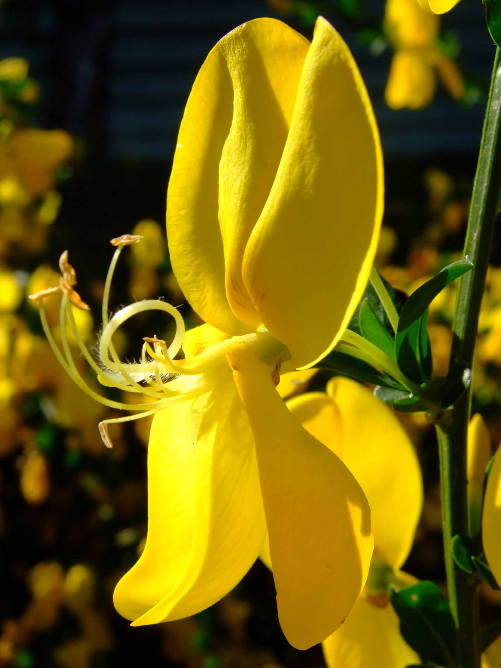 Common Broom flower in Bahrenfeld, Hamburg.